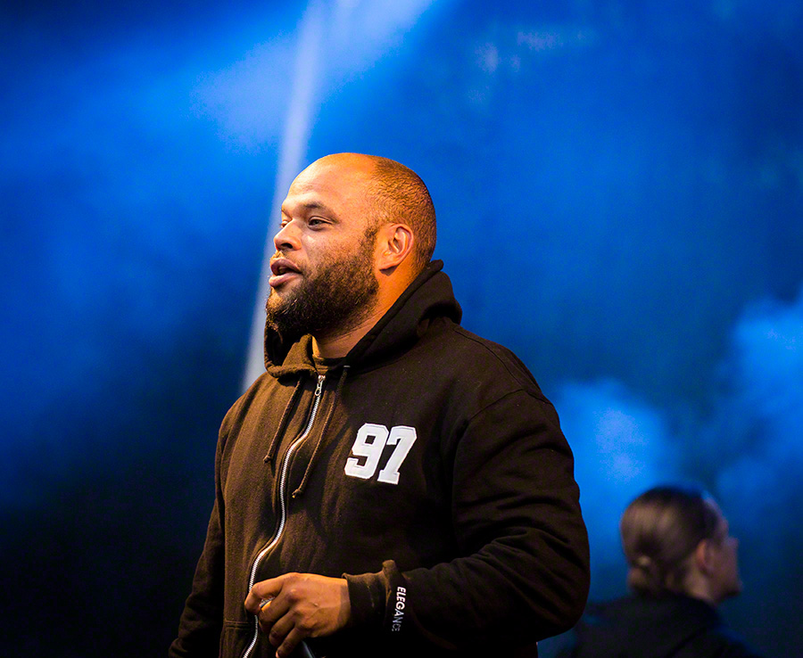 Ken Ring performs with Tommy Tee, T.P. Allstars and guests at Quart Festival in Kristiansand on 29. June 2016.